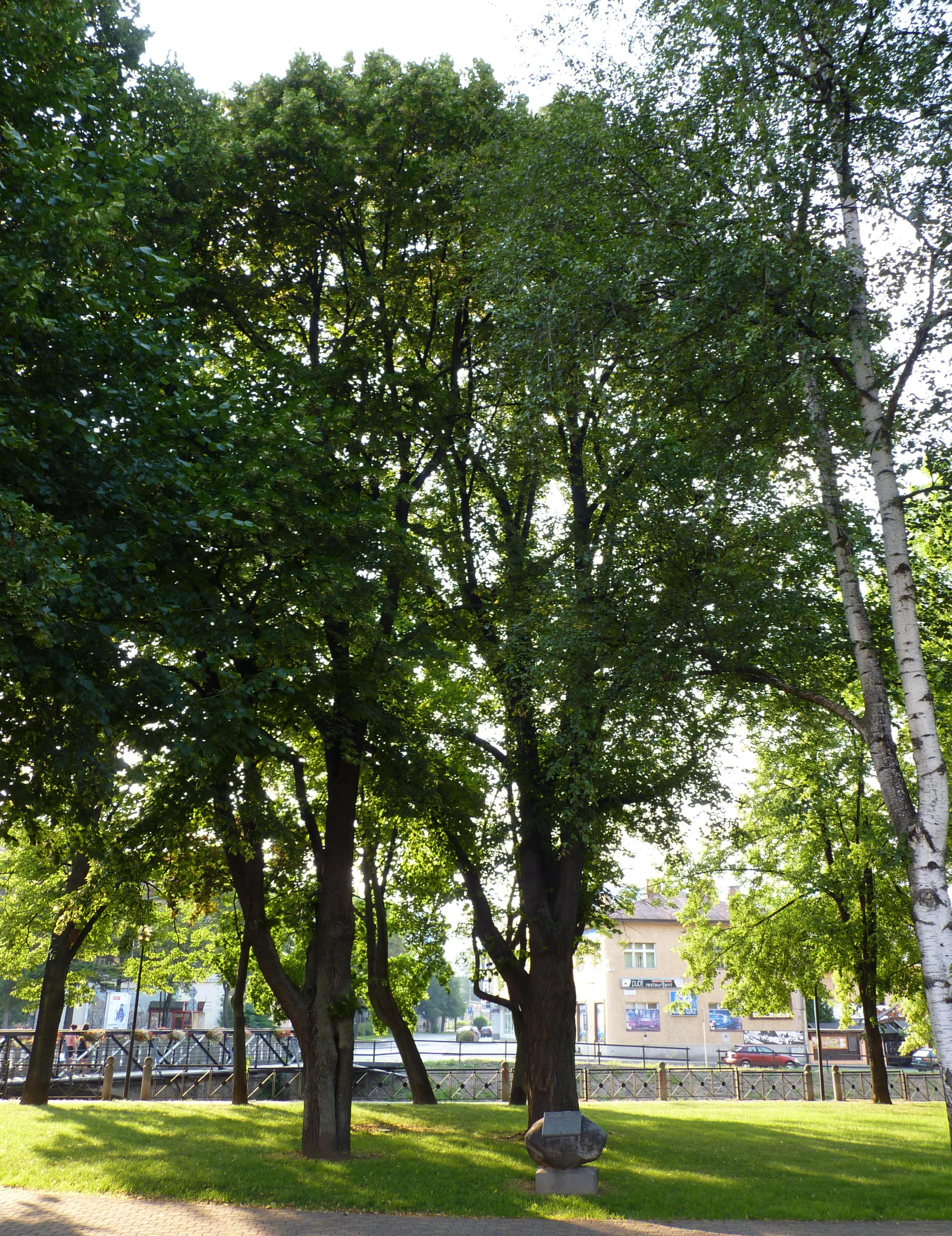 Memorial to Milan Zvara. Poprad, Slovakia